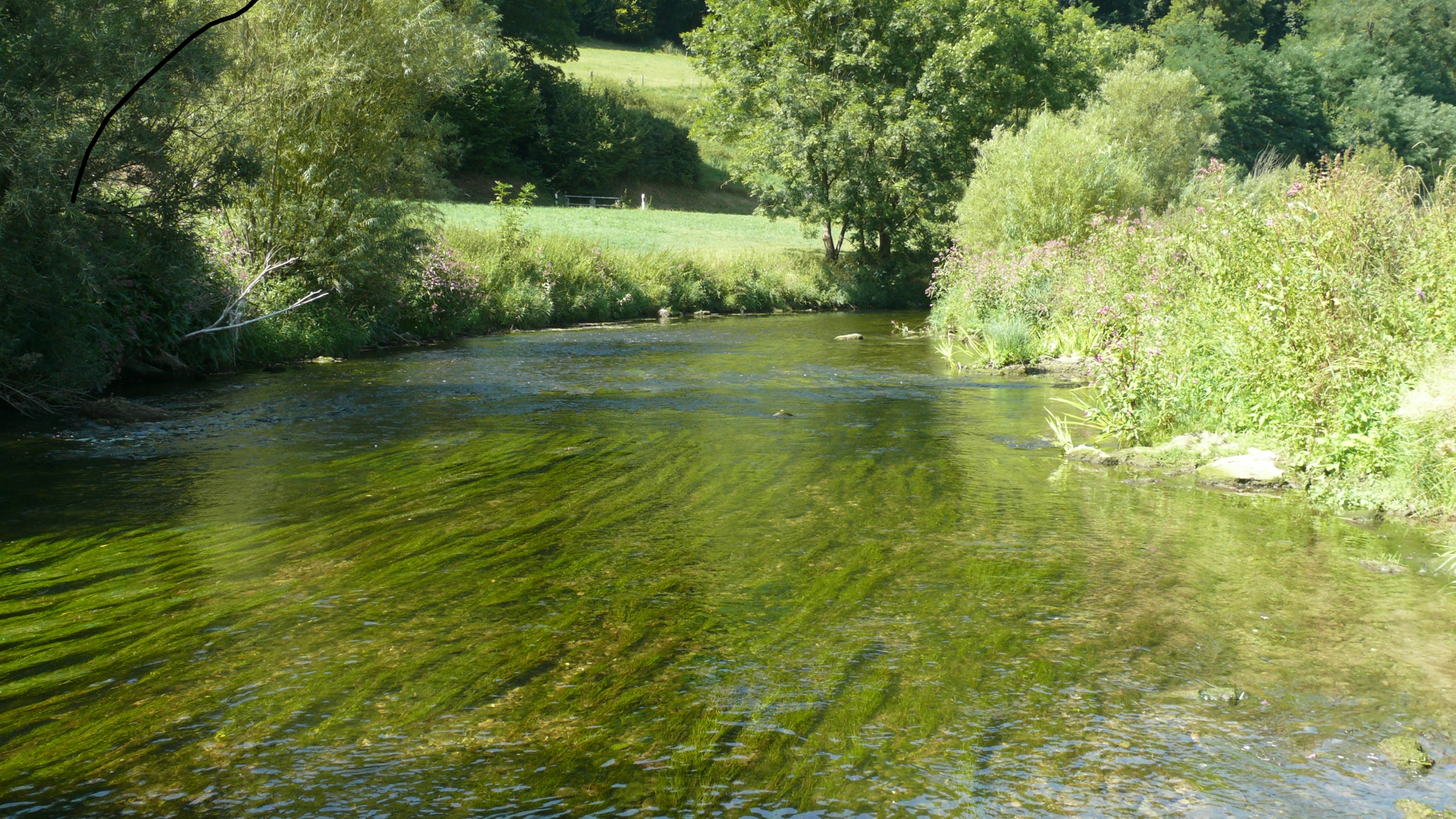 Potamogeton pectinatus, habitat, Jagst, Hohenlohe